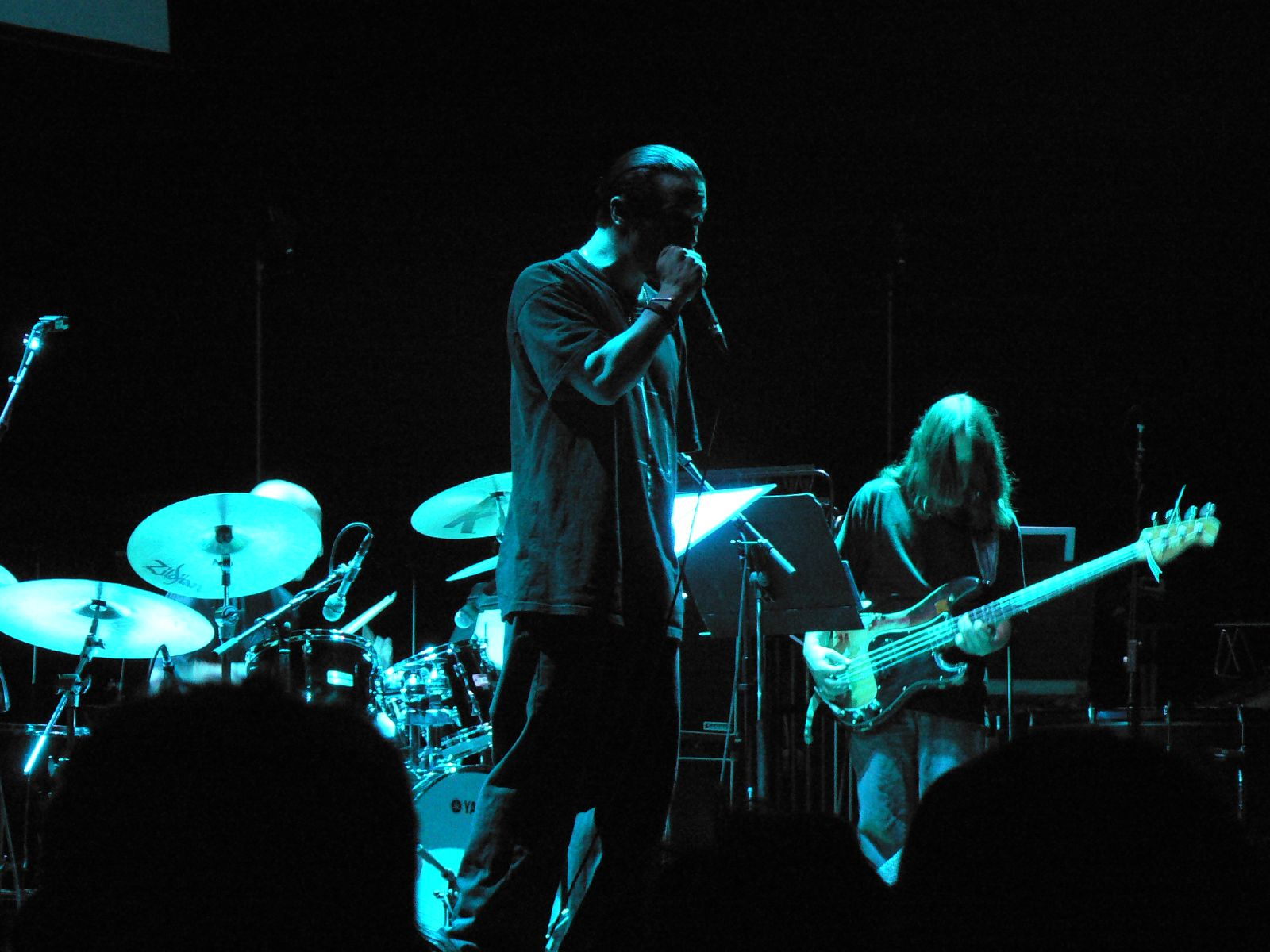 Zorn at the Barbican Mike Patton, Moonchild